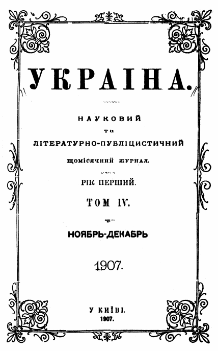 Cover of magazine "Україна", a now-defunct magazine, published in Kyiv, Ukraine in 1907.